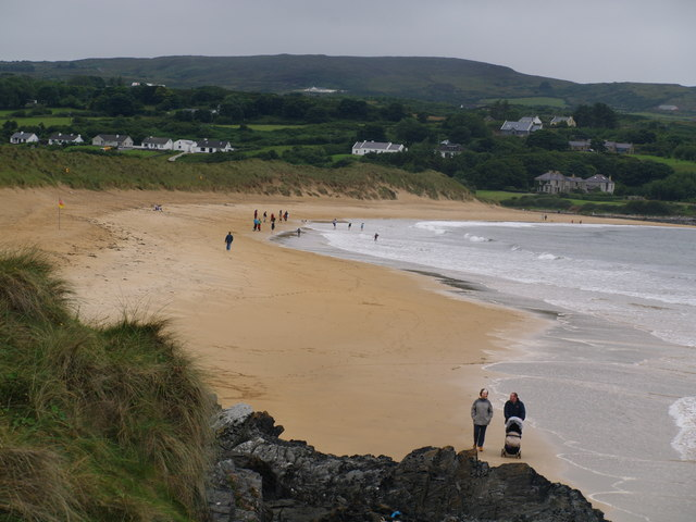 Beach Rush Hour - Culdaff